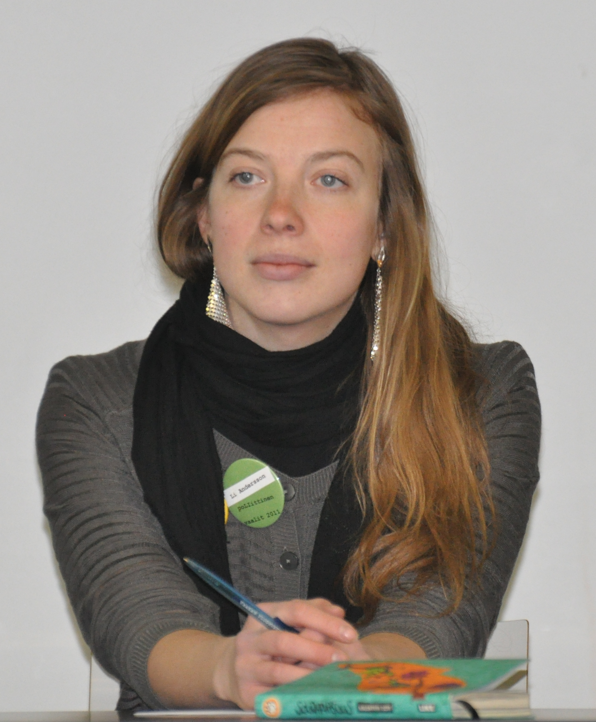 Chairwoman of the Left Youth Li Andersson at Turku Main Library, 2011.